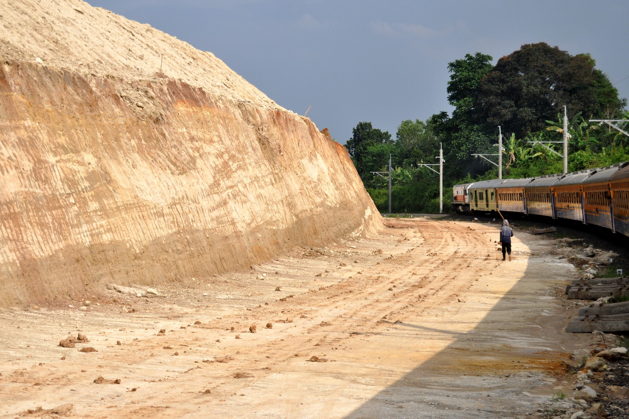 Railway double track construction in Maja-Rangkasbitung commuter line segment, between Maja and Citeras train station.